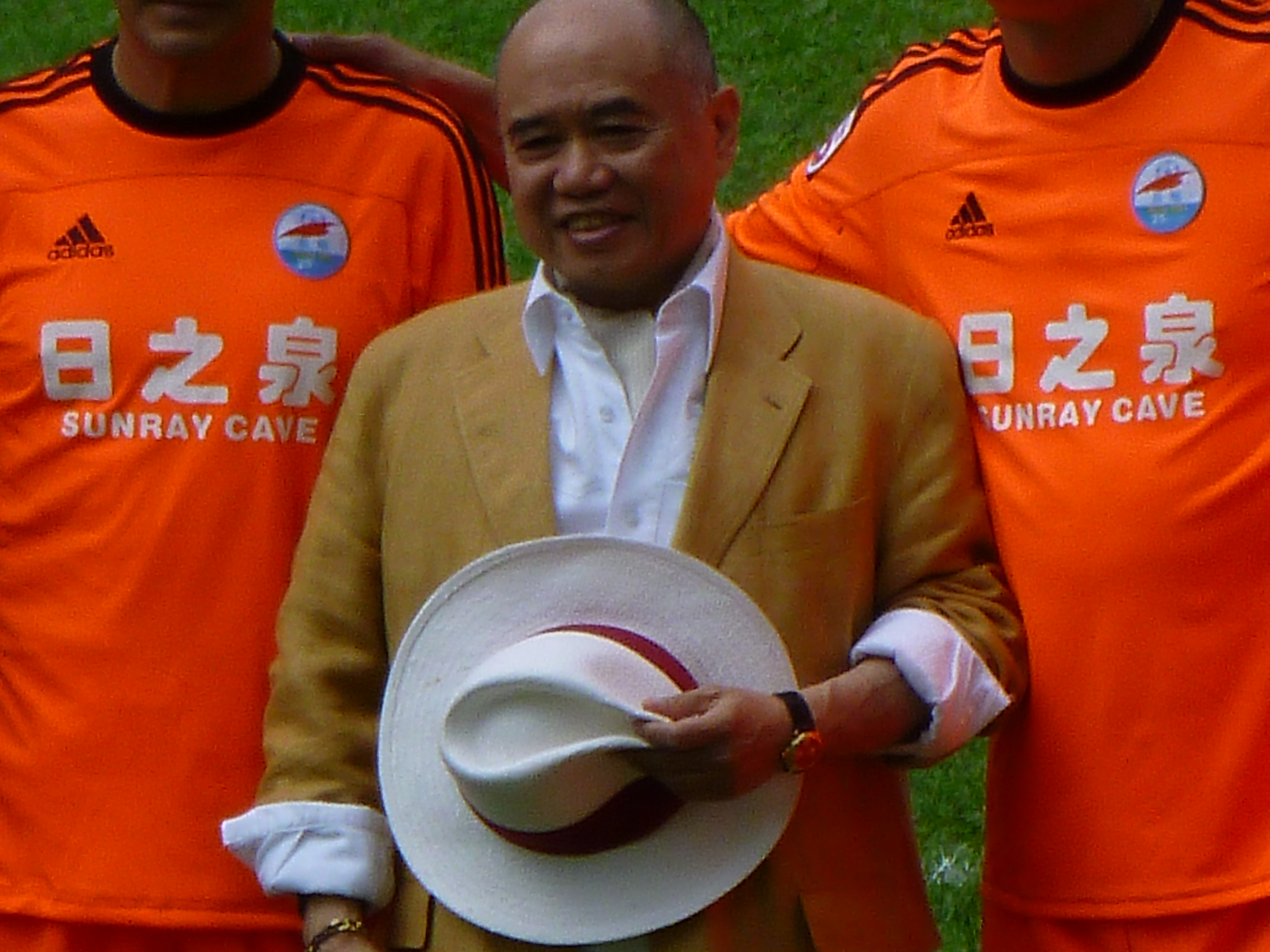 Lawrence Yu Kam-kee (3 June 2012 testimonial match of Cristiano Cordeiro; Mong Kok Stadium, Hong Kong)